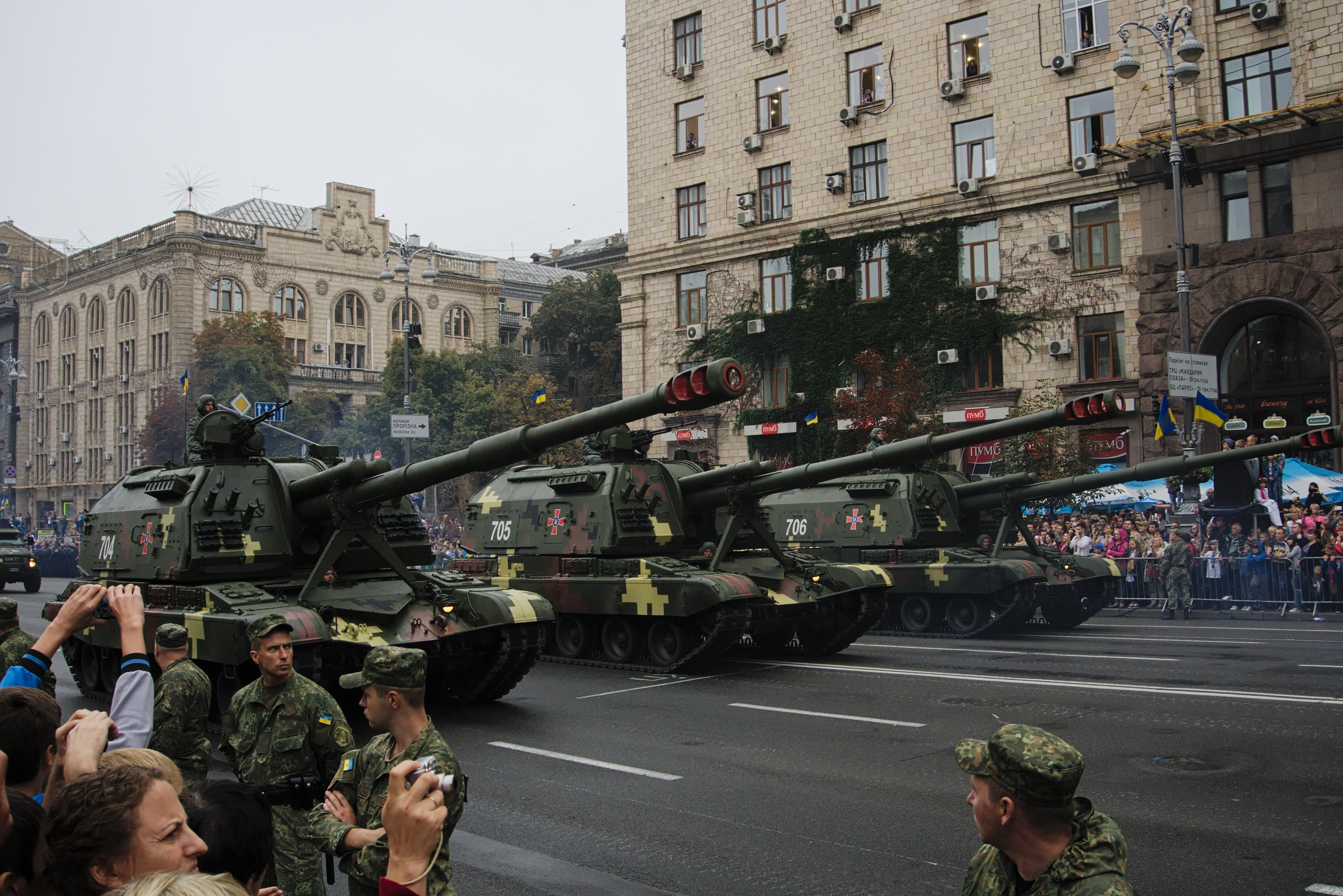 Msta (26th Artillery Brigade)